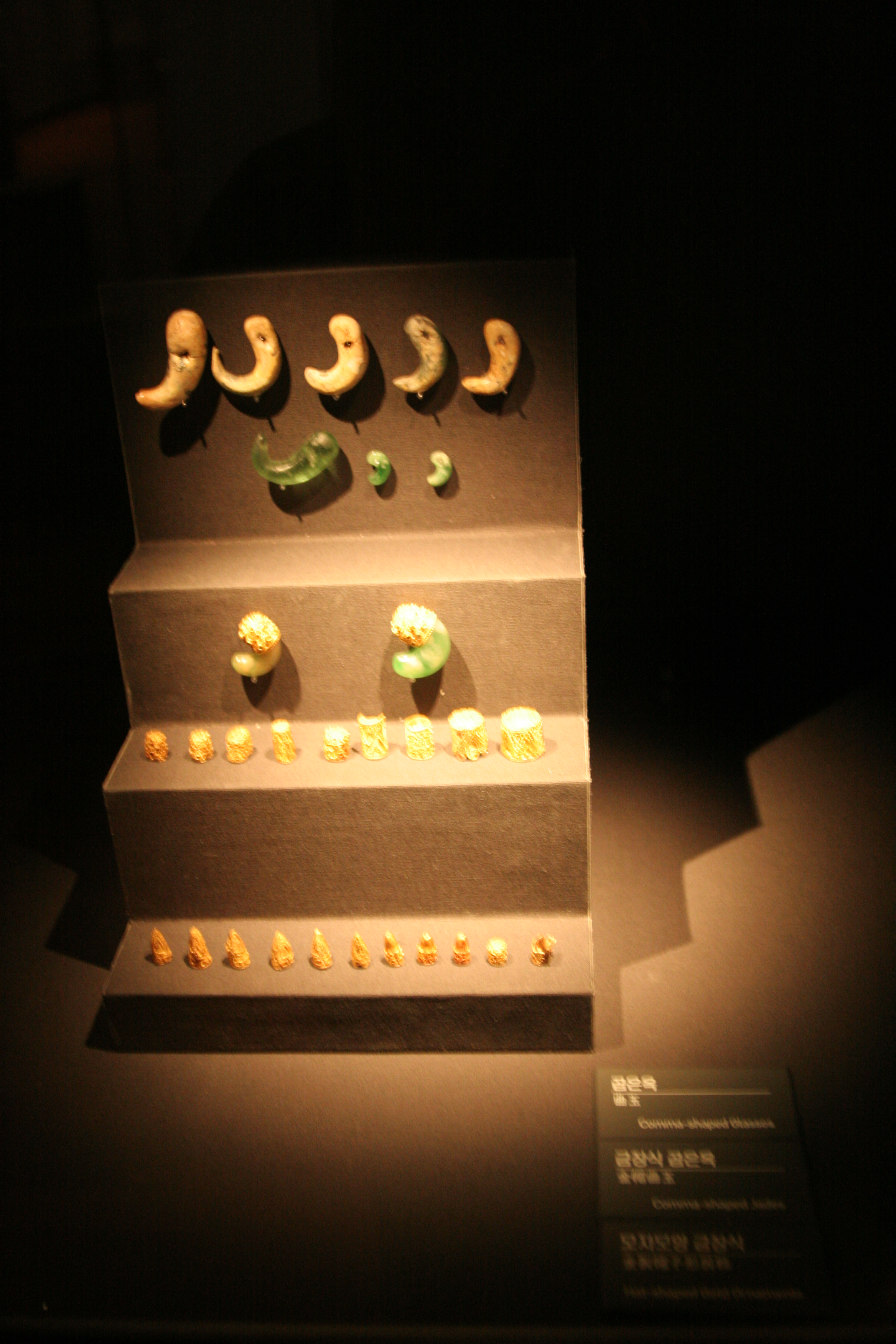 Comma-shaped beads of glass and jade, known as gogok, excavated from King Muryeong's tomb with gold cap ornaments. Those on the bottom two rows have the thicker end decolated with gold caps.